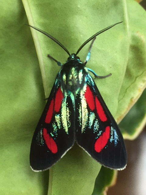 This is a F1 bred male from a female, found in Machu Picchu, Peru on August 10th, 2015.